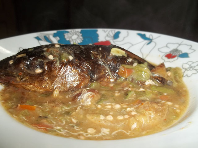 This is an image of food from Ivory Coast